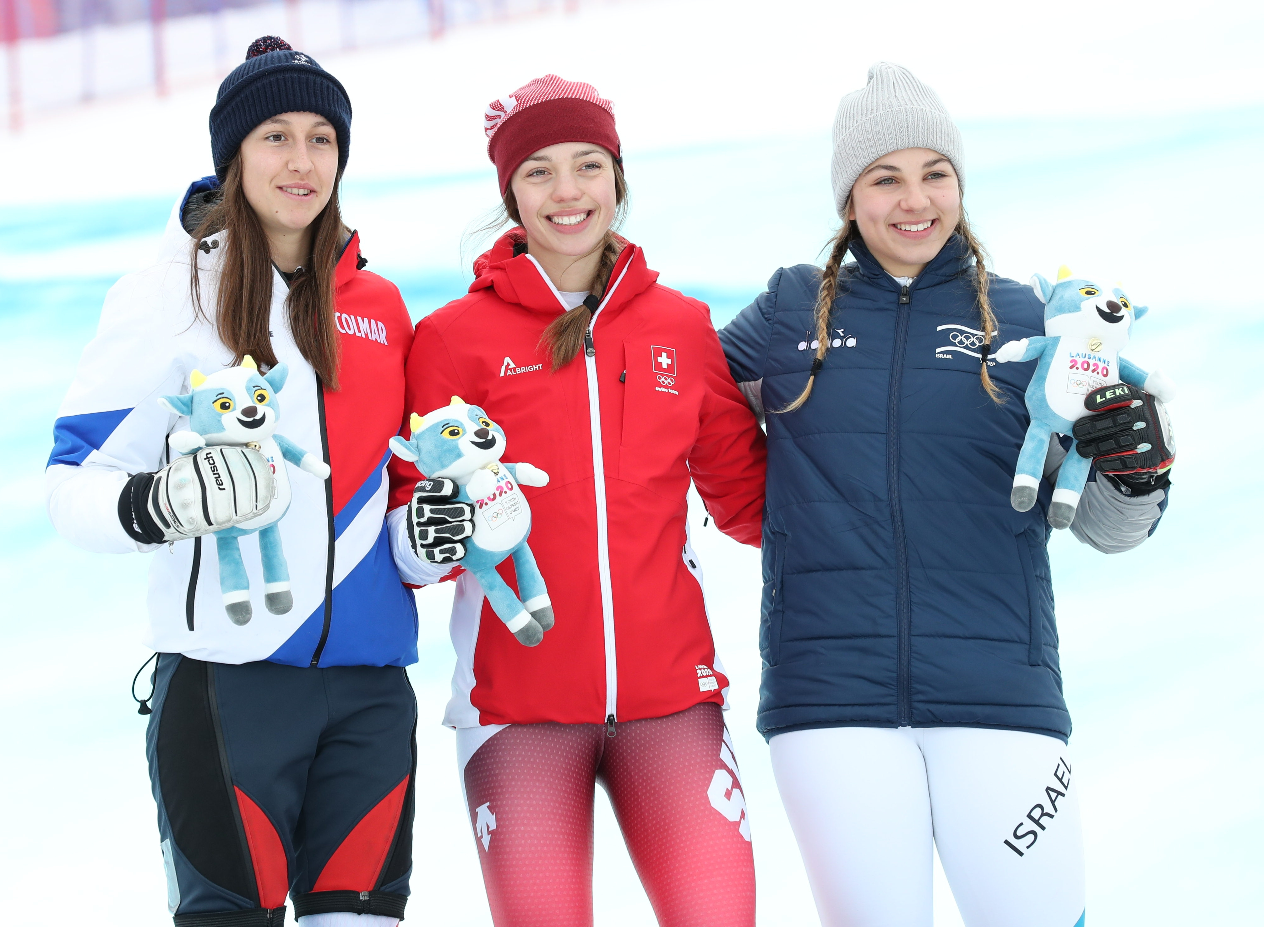 Women's Super G at the 2020 Winter Youth Olympics in Lausanne